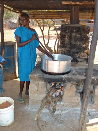 Woman boiling recently farmed shea nuts, Sudan